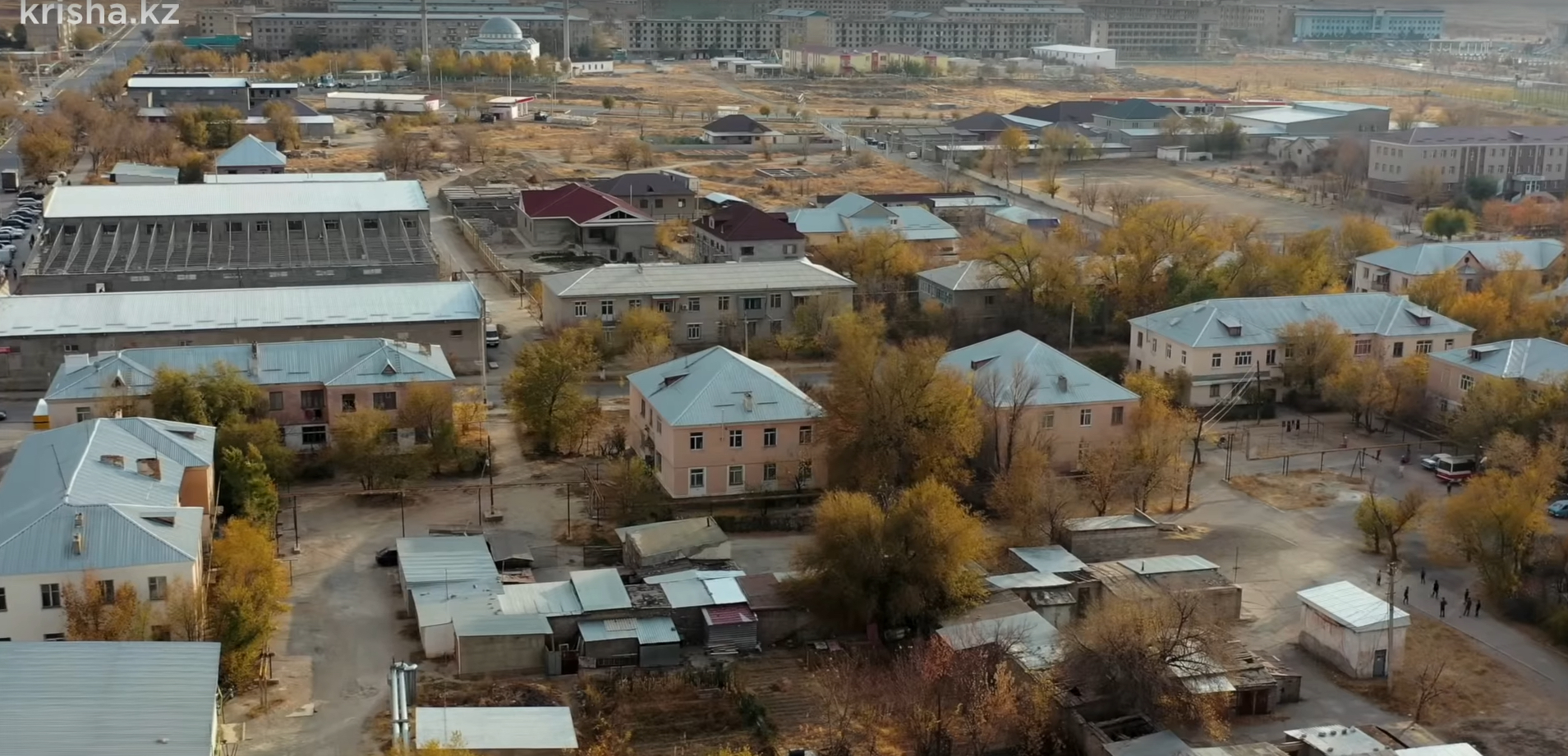 Depicted place: Karatau